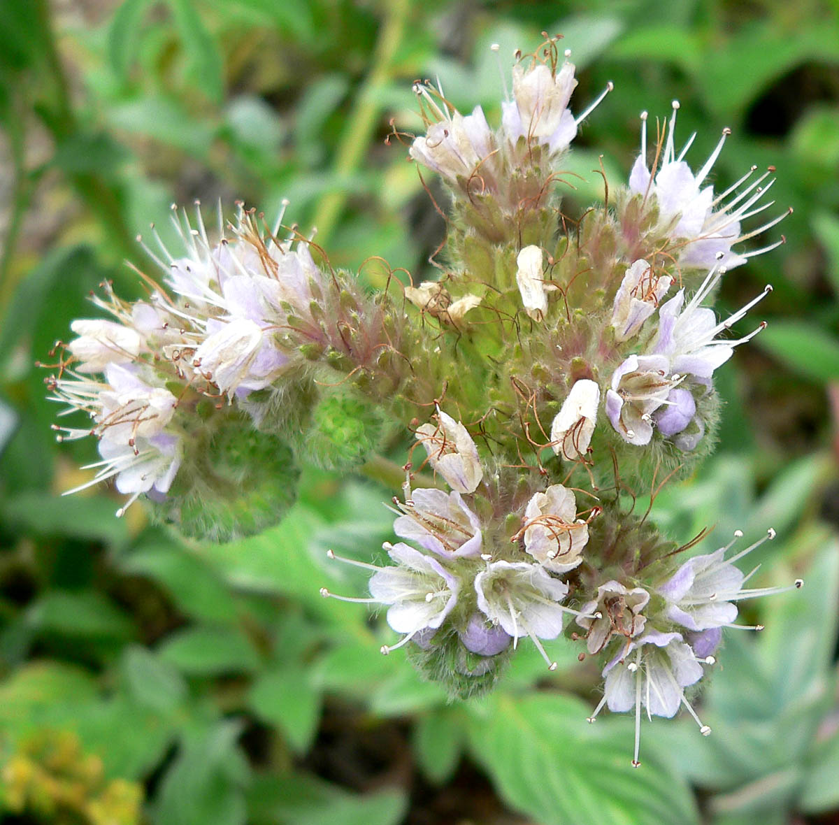 Photo of Phacelia argentea at the University of California Botanical Garden